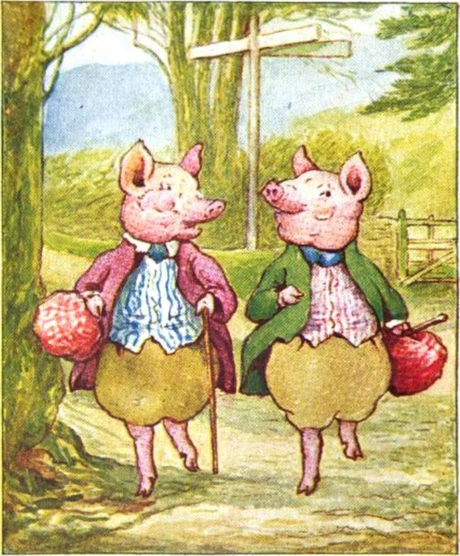 pg 13 of The Tale of Pigling Bland.